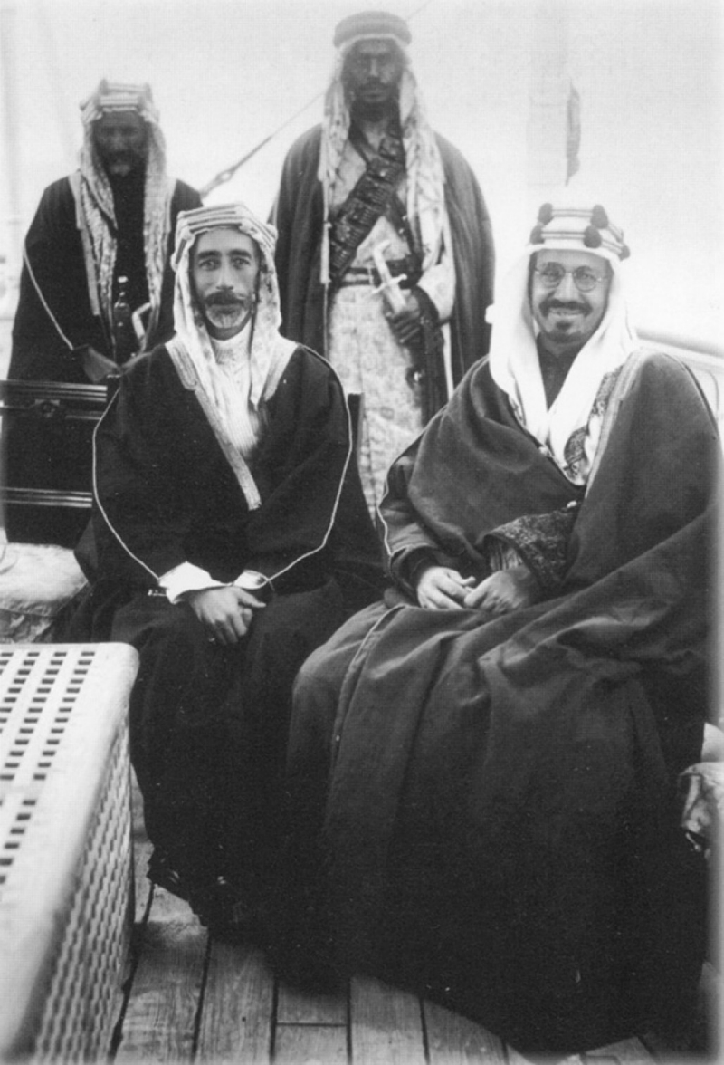 Photo of King Faisal I of Syria with King Abdul-Aziz of Saudi Arabia in the mid-1920s.